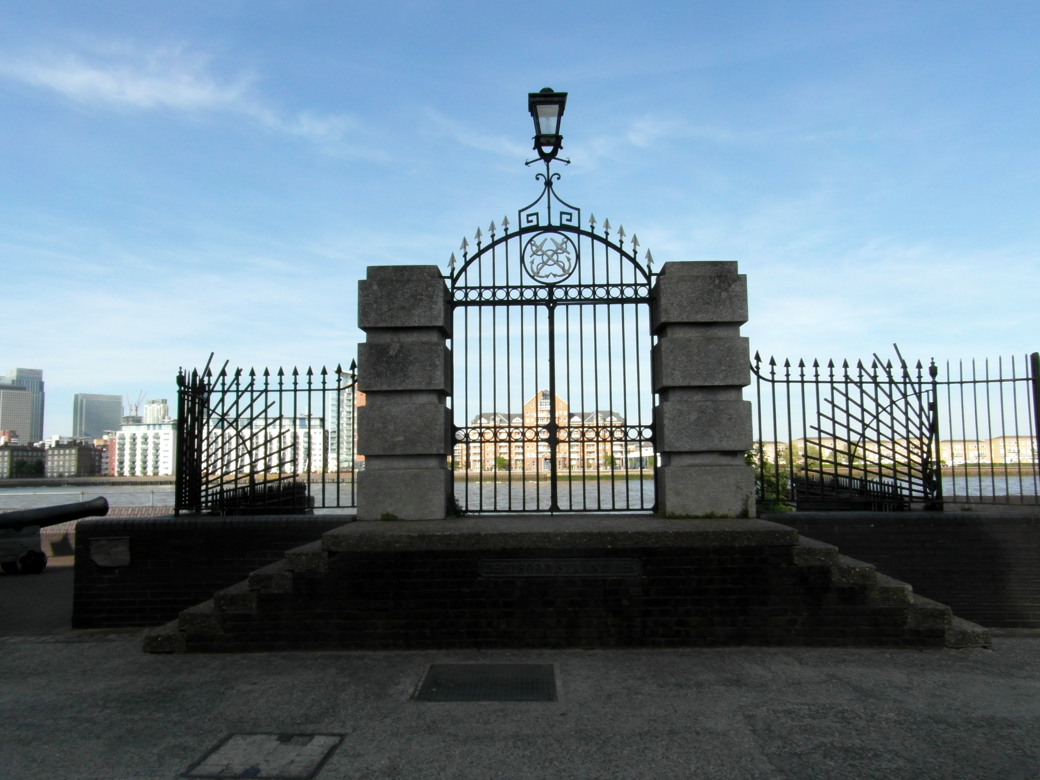 Stone steps with wrought-iron gates between stone capped piers. (A reputed site of the Queen Elizabeth and Raleigh cloak incident).